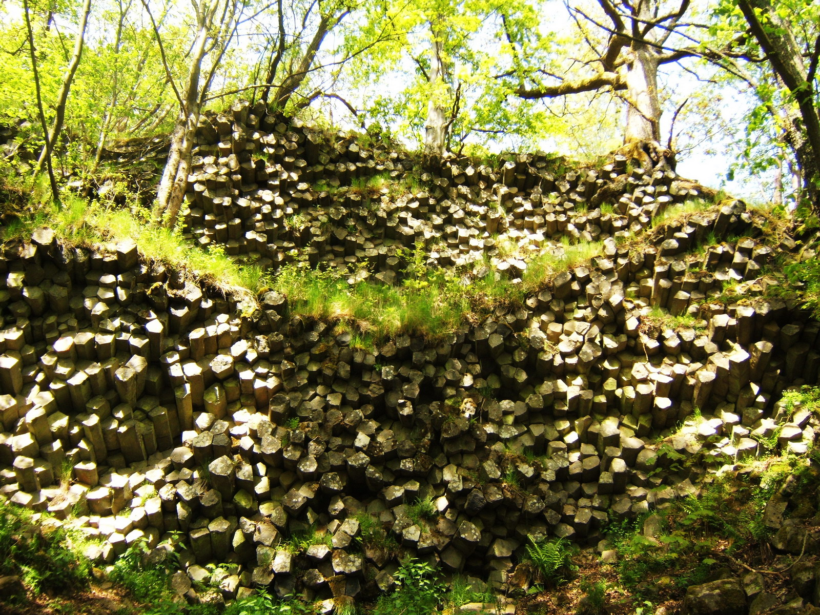 Basalt at the Gangolfsberg, Rhön, Bavaria, Germany